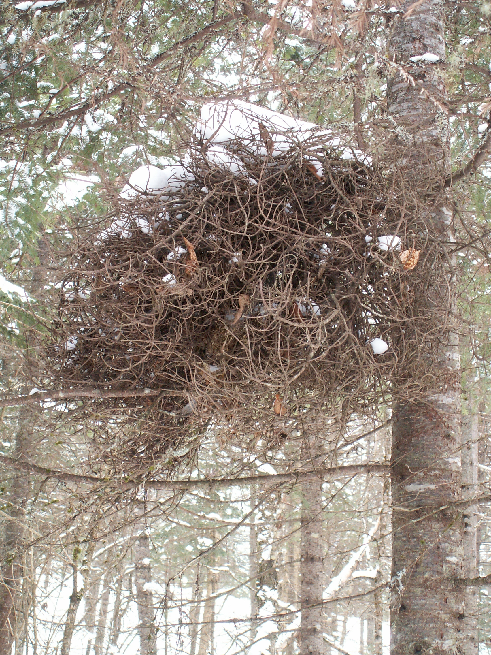 Witch's broom on a Balsam fir (Abies balsamea), Jacques-Cartier National Park, Quebec, Canada.